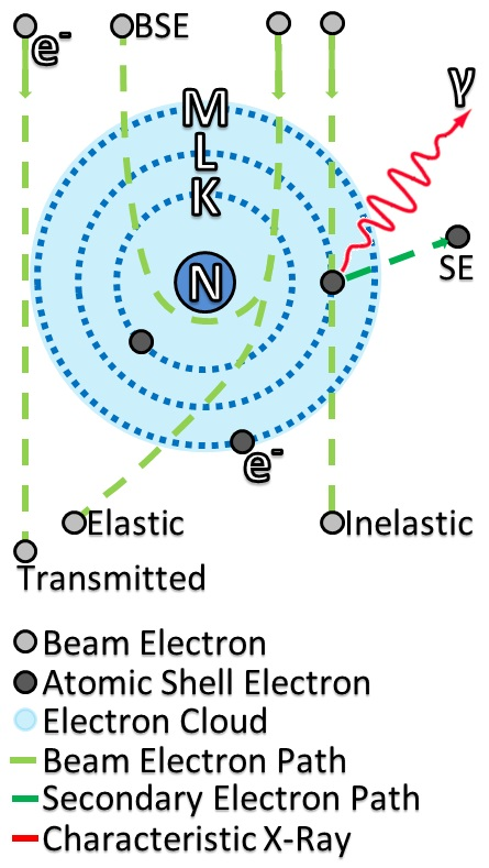 Image to illustrate the interaction of an electron beam with a sample. Where K,L,M are the electron shells. N is the sample nucleus. Gamma is a characteristic photon emitted by the ejection of SE (Secondary Electron). And BSE is a Back-Scattered Electron. Electrons follow the usual e- notation. Other factors to note are contained in a key within the image.